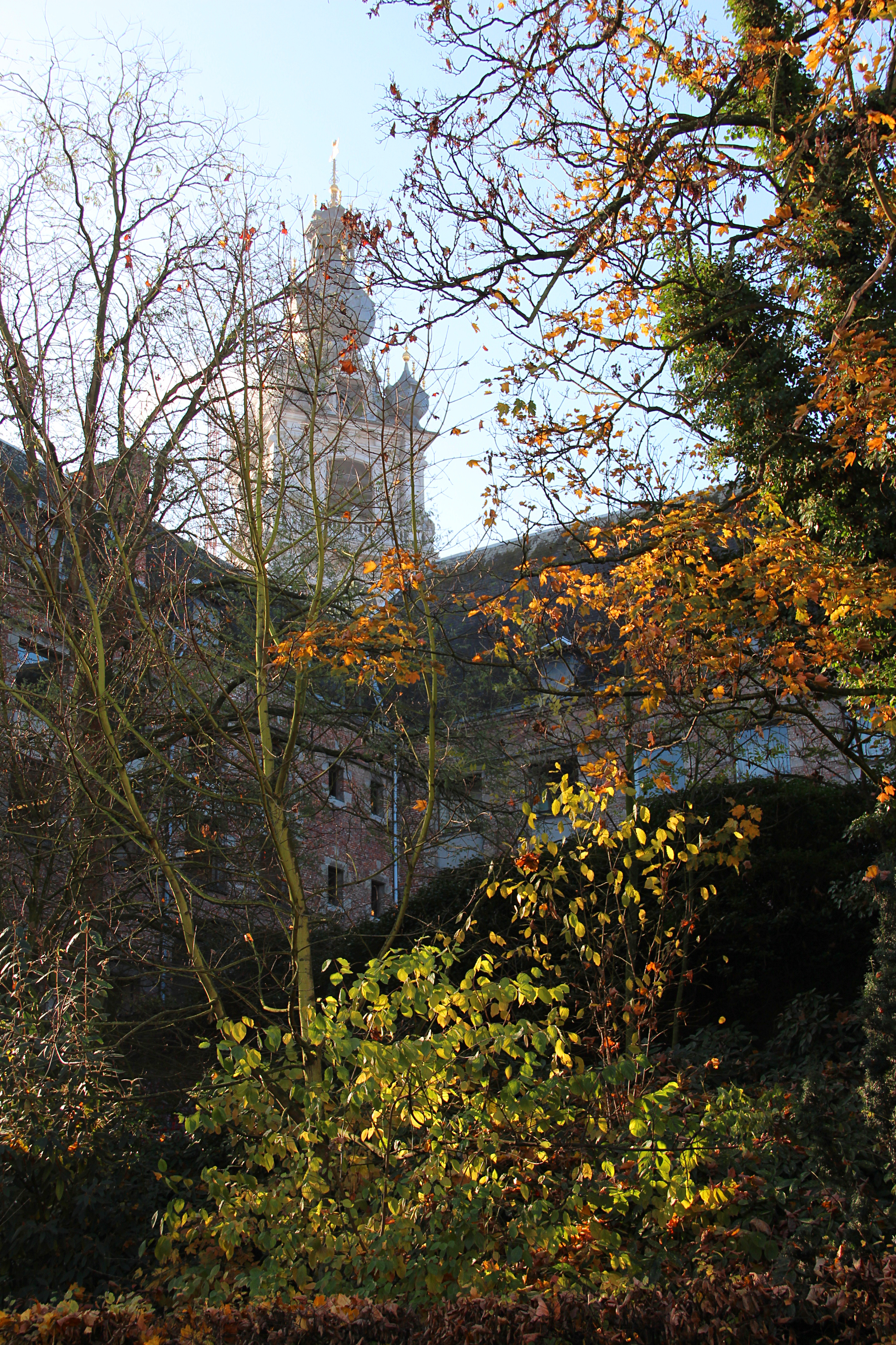 Mons (Belgium), garden Fernand Dumont (Belgian surrealist writer 1906-1945).